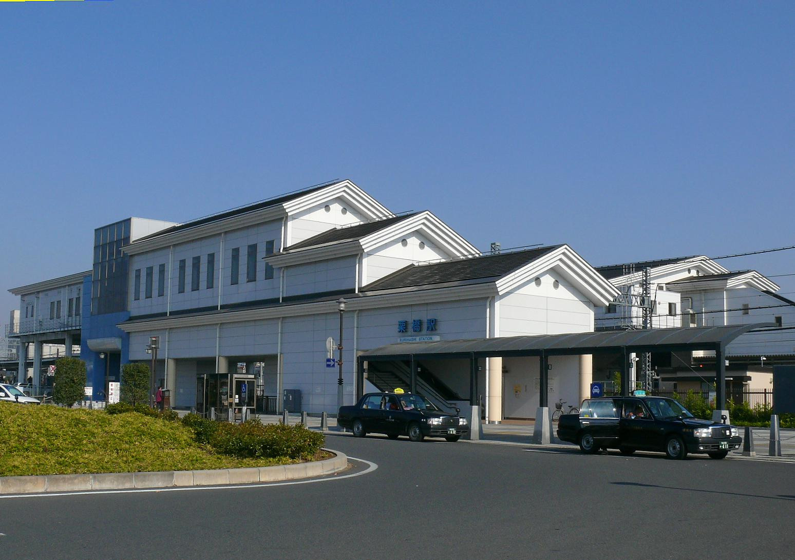 JR Utsunomiya line and Toubu Nikkou Line Kurihashi-Station(Kurihashi-town, Kitakatushika-gun, Saitama-prefecture, Japan). It takes a picture of the station eastward exit of Kurihashi-Station in the JR Utsunomiya-line from the public road. See also Ja:栗橋駅 for more information(written in Japanese). JR宇都宮線・東武日光線の栗橋駅の駅舎西口を公道から撮影。 駅の所在地は埼玉県北葛飾郡栗橋町。